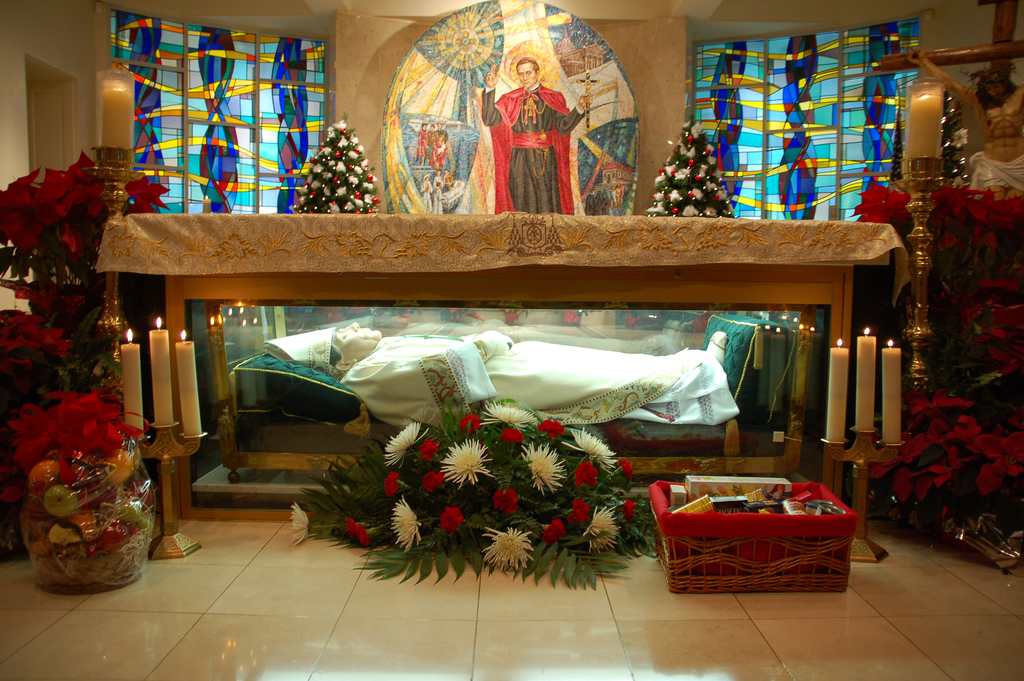 The remains of St. John Neumann enclosed within the glass altar of the National Shrine of Saint John Neumann, which is located in the lower church of the Parish of St. Peter the Apostle, Philadelphia, Pennsylvania. On December, 27, 2007, the body of St. John Neumann was put into a new set of traditional vestments, substantially affecting the appearance of the saint's body.